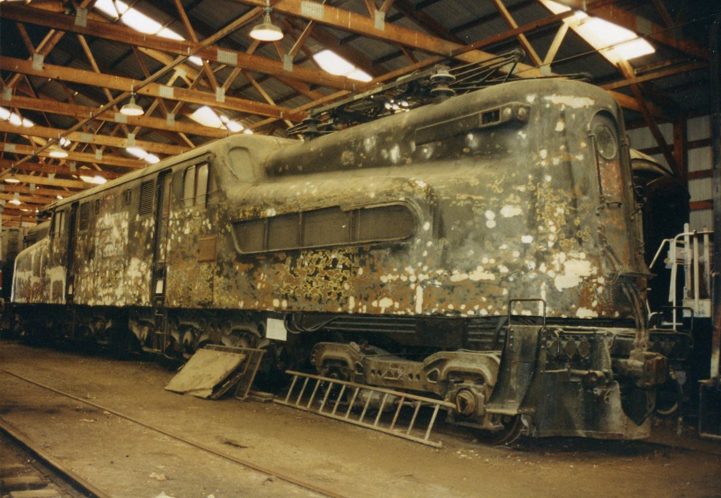 Pennsylvania Railroad GG1 number 4297 at Illinois Railway Museum Photo by Sean Lamb (User:Slambo)